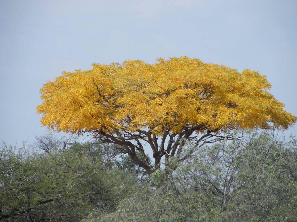 Kirkia acuminata Oliv. in autumn colours - Mmabolela on Limpopo River north of Maasstroom, Transvaal, South Africa